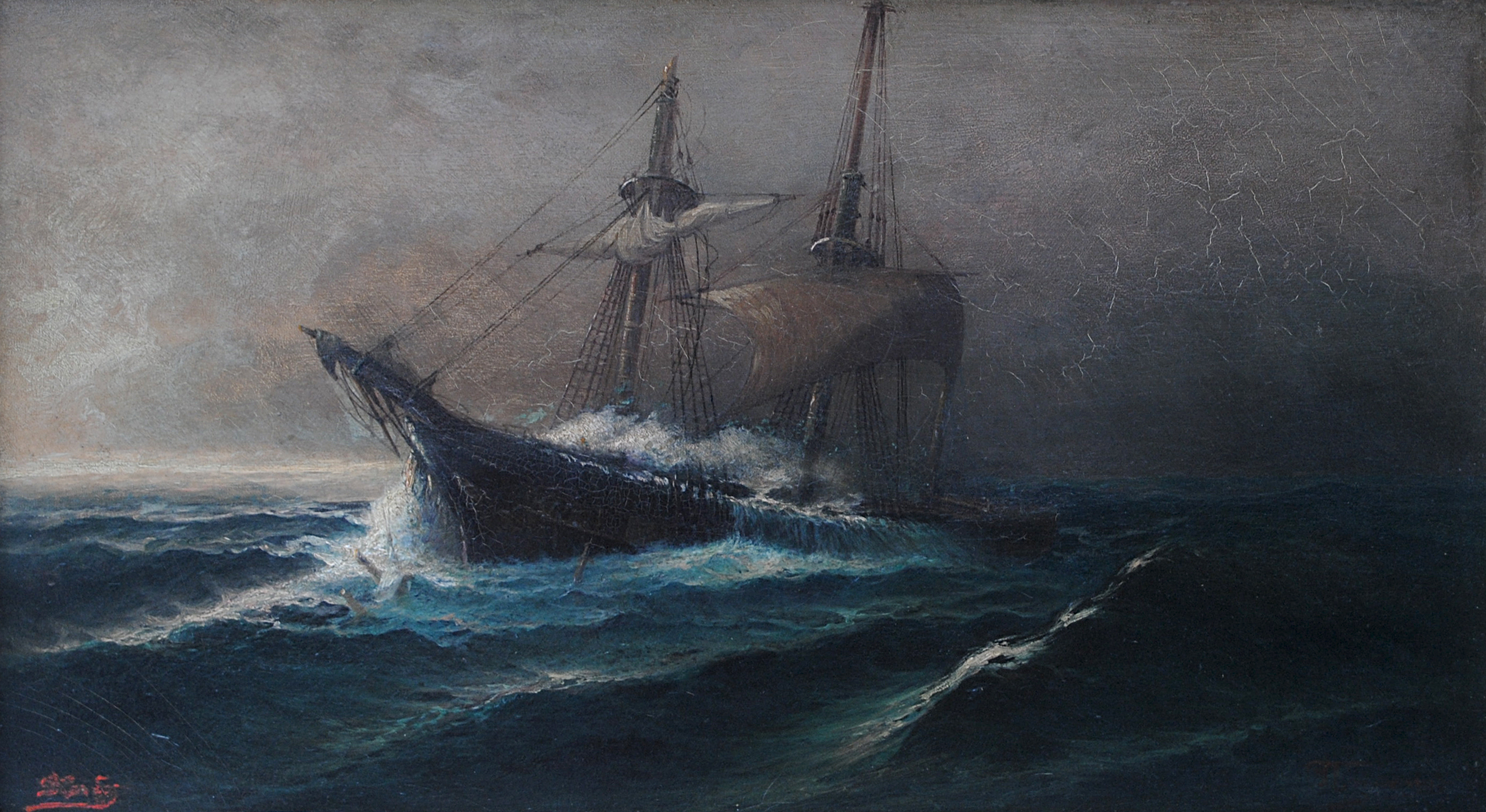 Boat in storm. Oil on cardboard, 31 cm x 57 cm. Private collection.